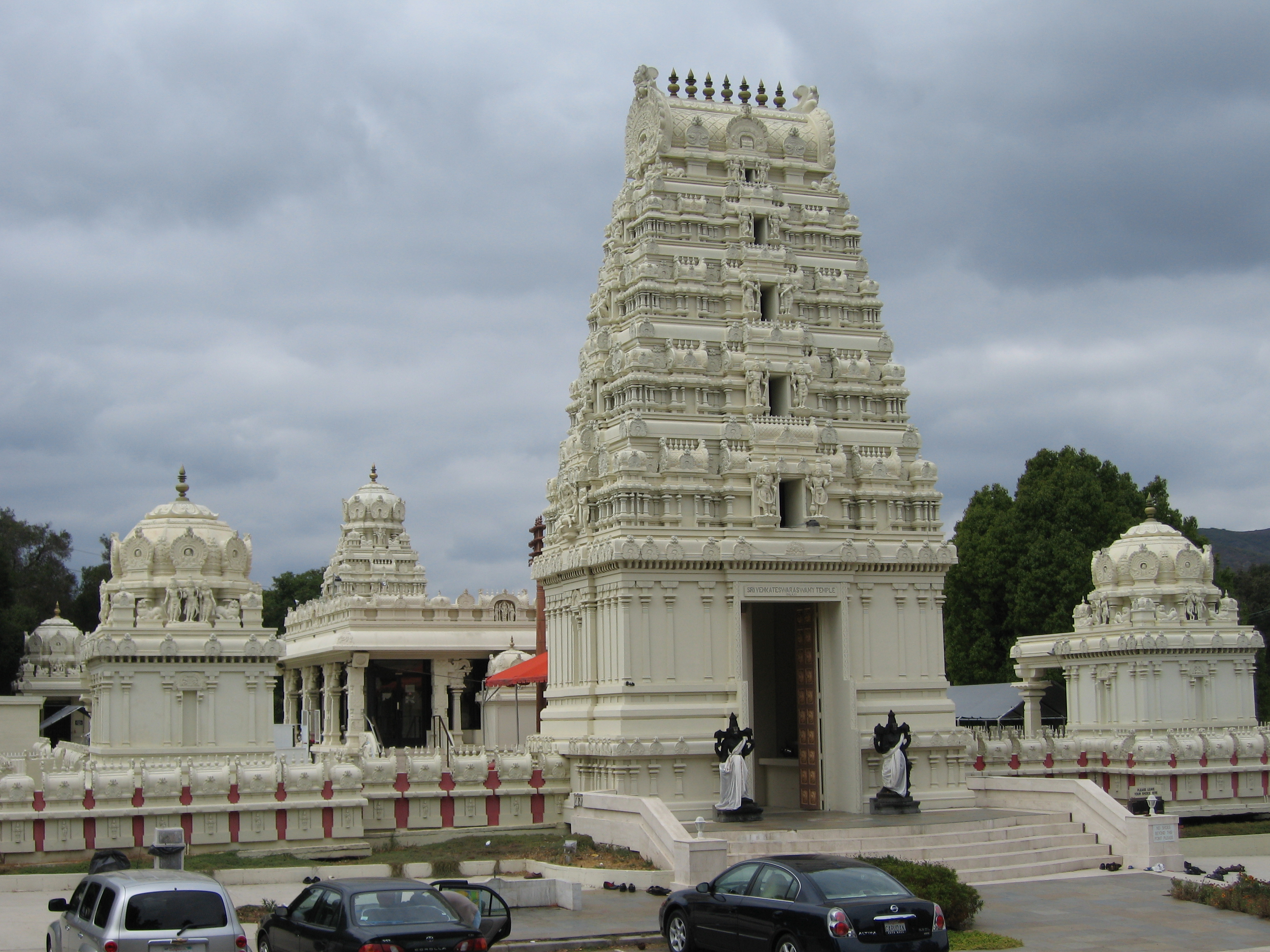 The Hindu Temple at Malibu, California.